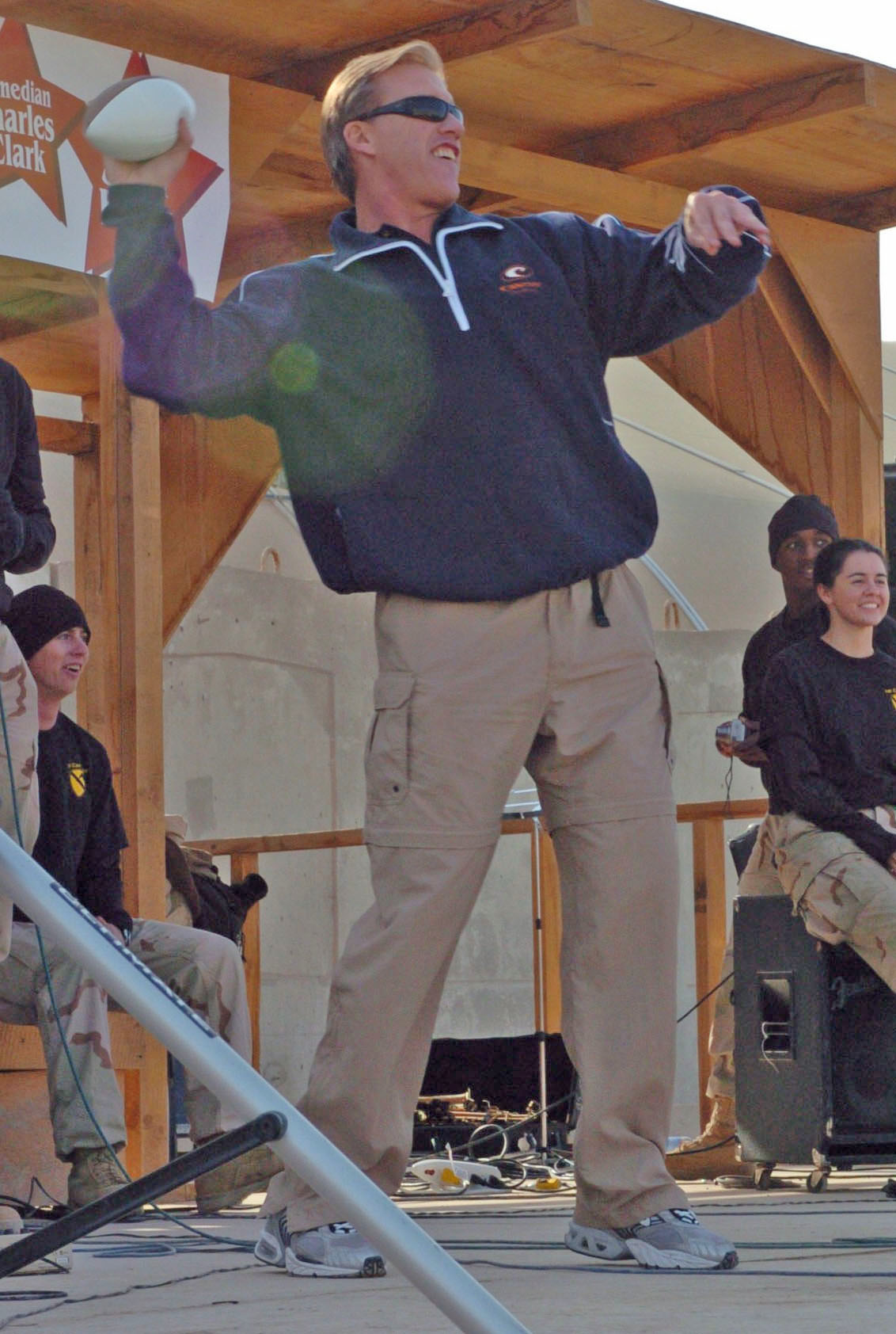 NFL superstar John Elway prepares to launch a football into the audience during a United Service Organizations show Dec. 14 aboard Camp Victory in Baghdad, Iraq.